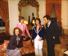 The photo contact sheet, identified as A8995 by the White House Photographic Office (WHPO), is housed at the Gerald R. Ford Presidential Library, a branch of the National Archives and Records Administration (NARA). This file is a 200 dpi photo contact sheet having images from roll of film A8995 of the August 9, 1974 - January 20, 1977 Gerald R. Ford White House Photographic Office Series A0001-A9999 and B0001-B2886 photographs. The date on the photo contact sheet is the date the roll of film was processed, not necessarily the date the photographs were taken. See table below for additional details.